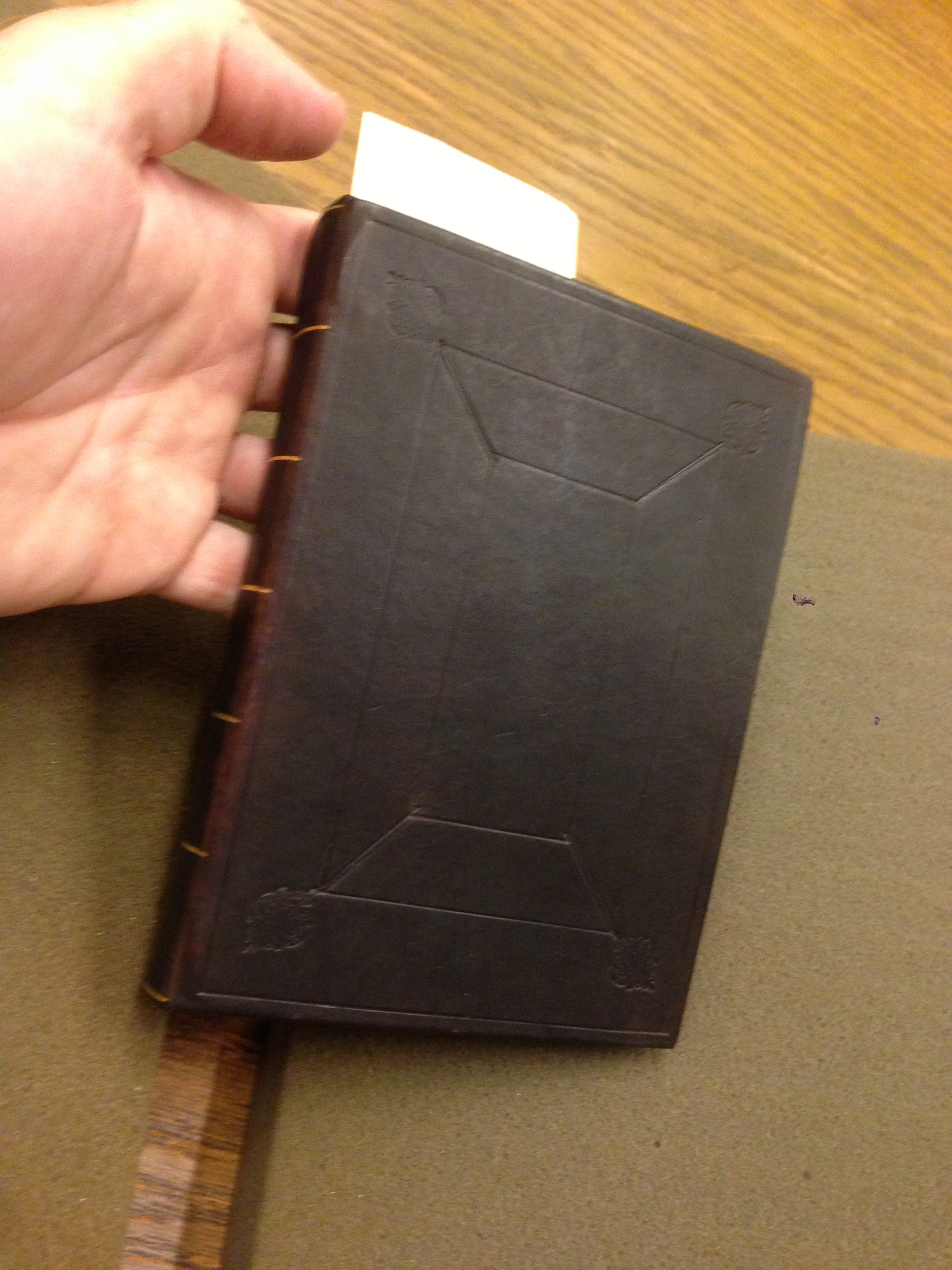 Robert Calef's "More Wonders of the Invisible World" from Boston Public Library Rare Book Room, with permission